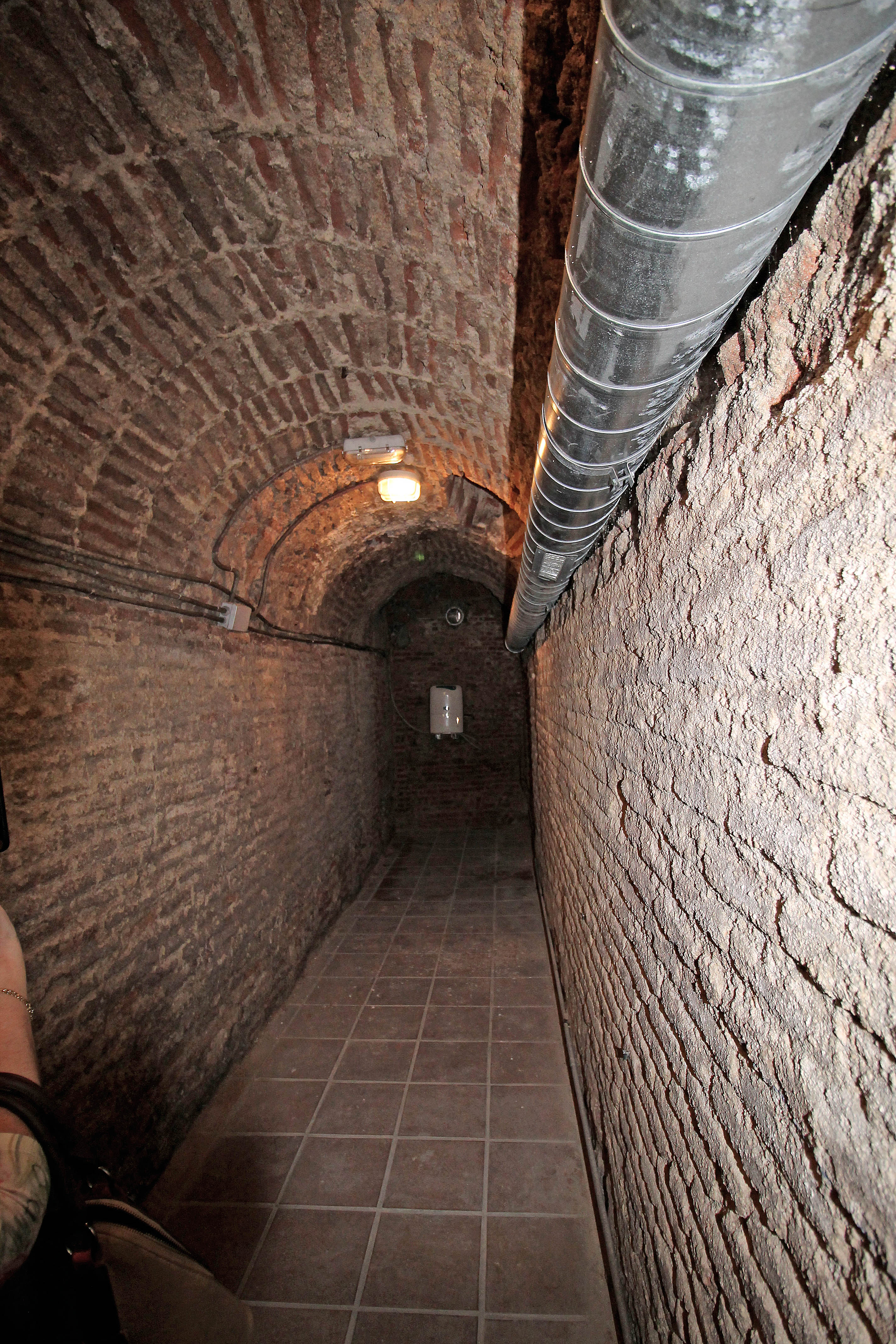 A qanat under the former mansion of the marquis of Villafranca in Madrid (Spain).